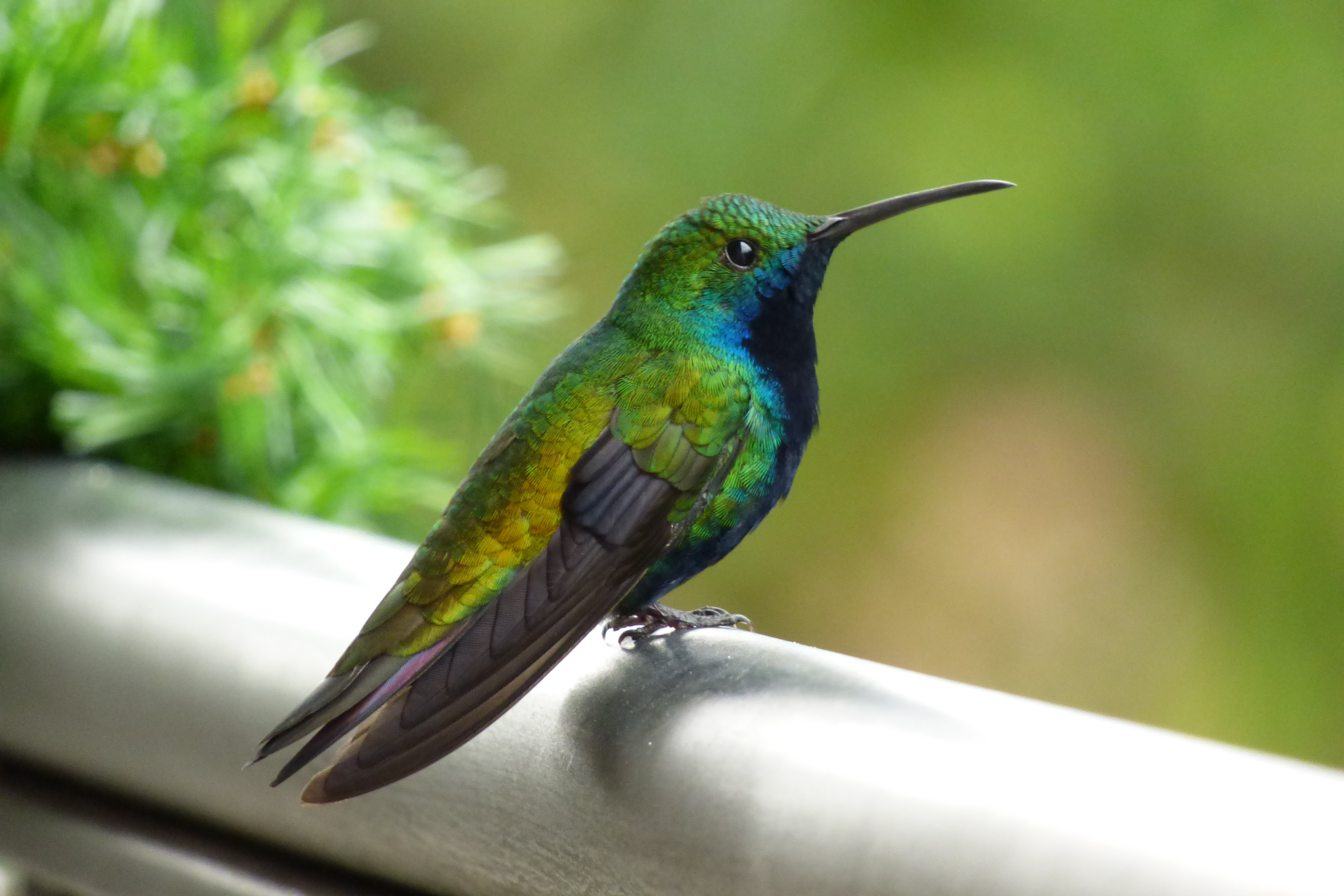 Anthracothorax nigricollis (Mango pechinegro) - Macho